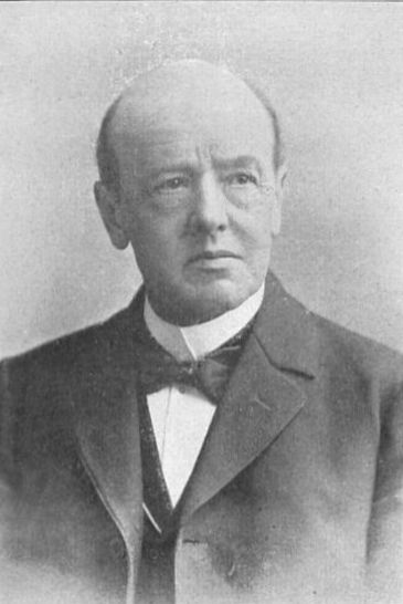 Portrait photograph of Wilhelm Lesenberg, German physician